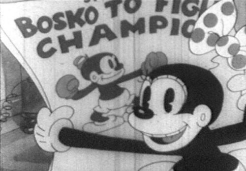 scene from public domain animated feature Battling Bosko